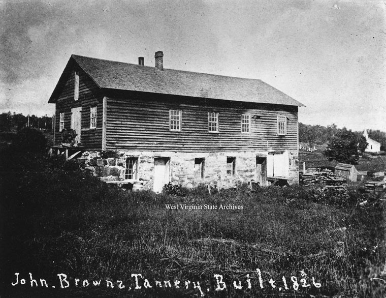 John Brown Tannery Site, listed on the NRHP on December 14, 1978. Located 500 feet south of the junction of Pennsylvania Route 77 and John Brown Road, Richmond Township, Crawford County, Pennsylvania. Note that the tannery building itself, pictured here, burned down in 1907, so that the photo dates before then.